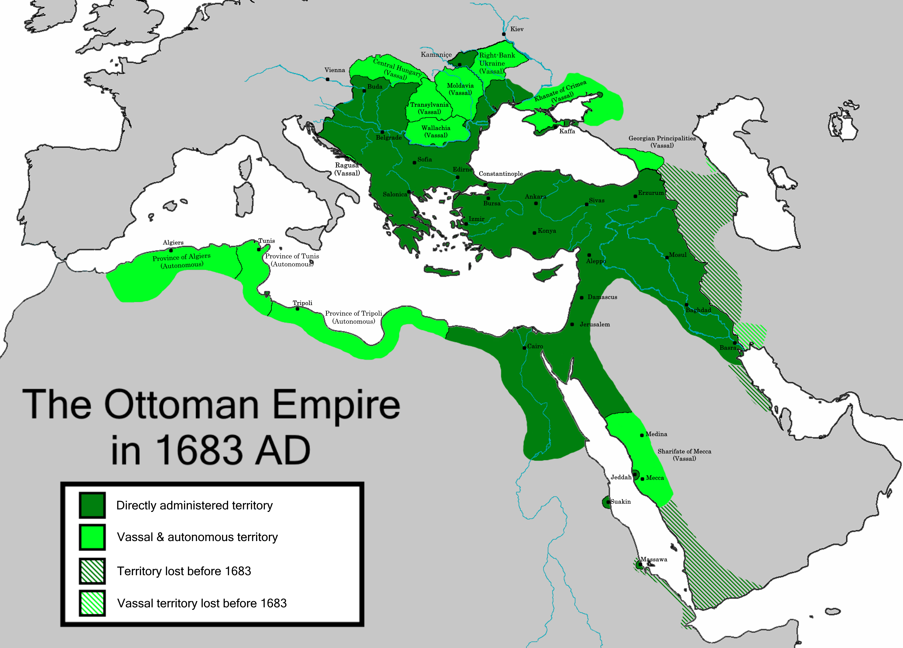 Ottoman Empire in 1683 Directly administered territory Vassal & autonomous territory